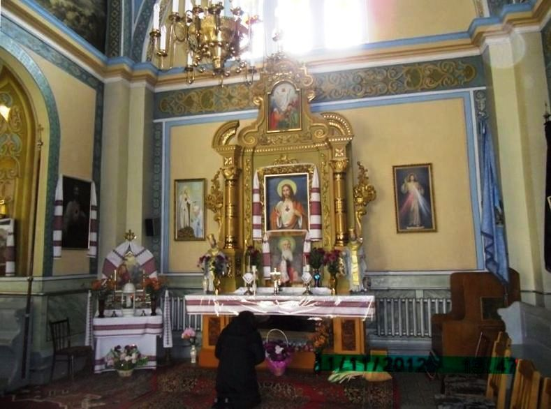 City Stryi. Church of the Annunciation of the Blessed Virgin Mary. The relics of the blessed of Josaphat Kotsylovsky.